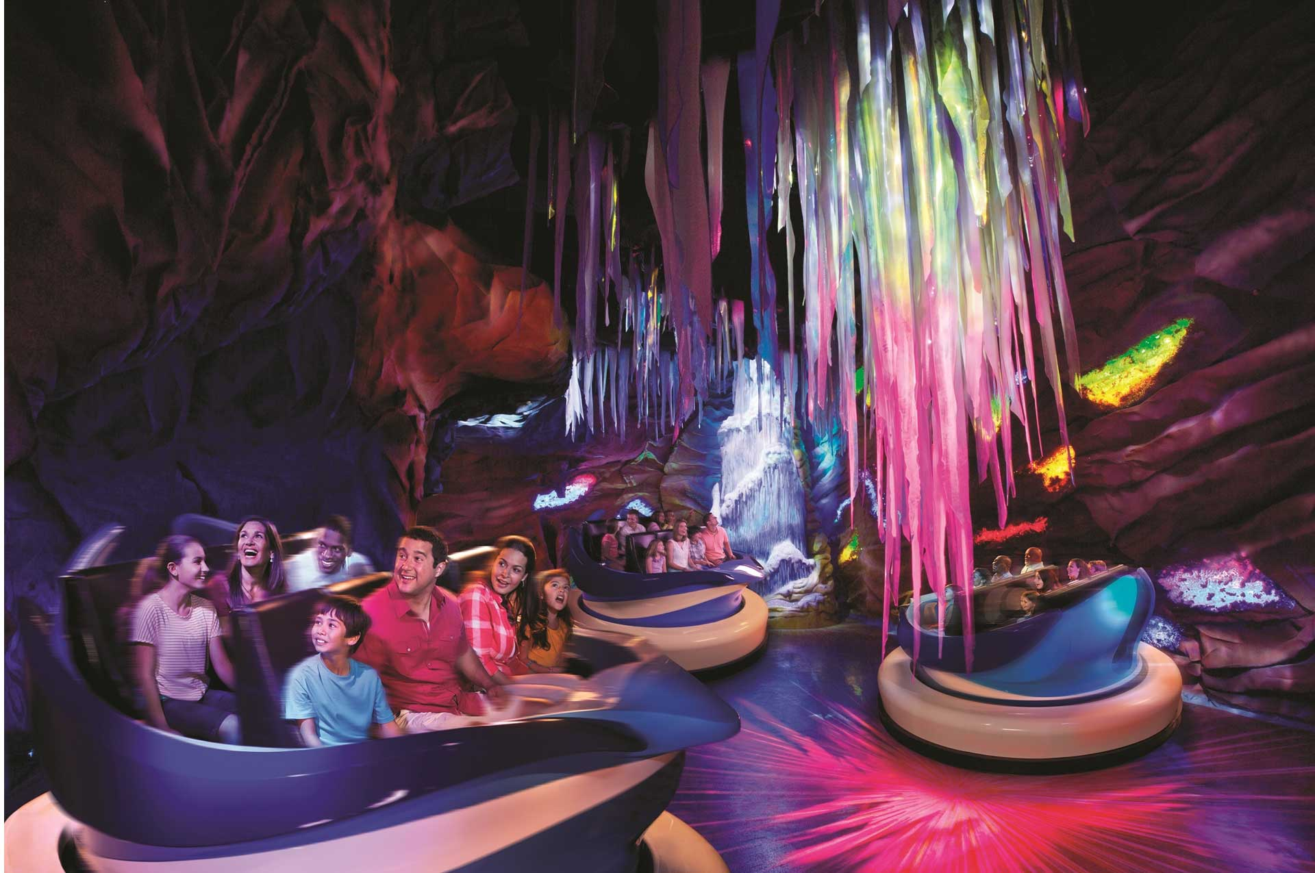 Antartica: Empire of the Penguin Rainbow room, Komogowa SeaWorld